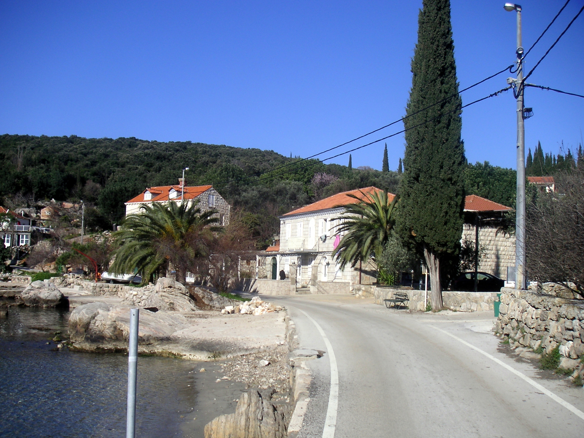 Molunat Main Street